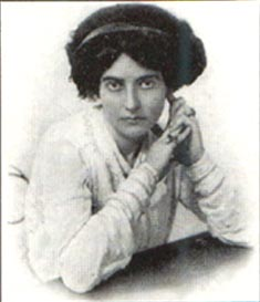 From was taken in 1911